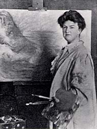 Photograph of Katerine Sophie Dreier, 1910